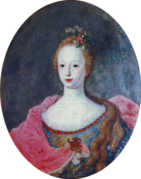 Portrait of Maria Francisca Doroteia of Braganza, Infanta of Portugal.